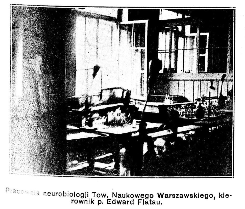 Zdjęcie pracowni neurobiologii Edwarda Flatau w 1923